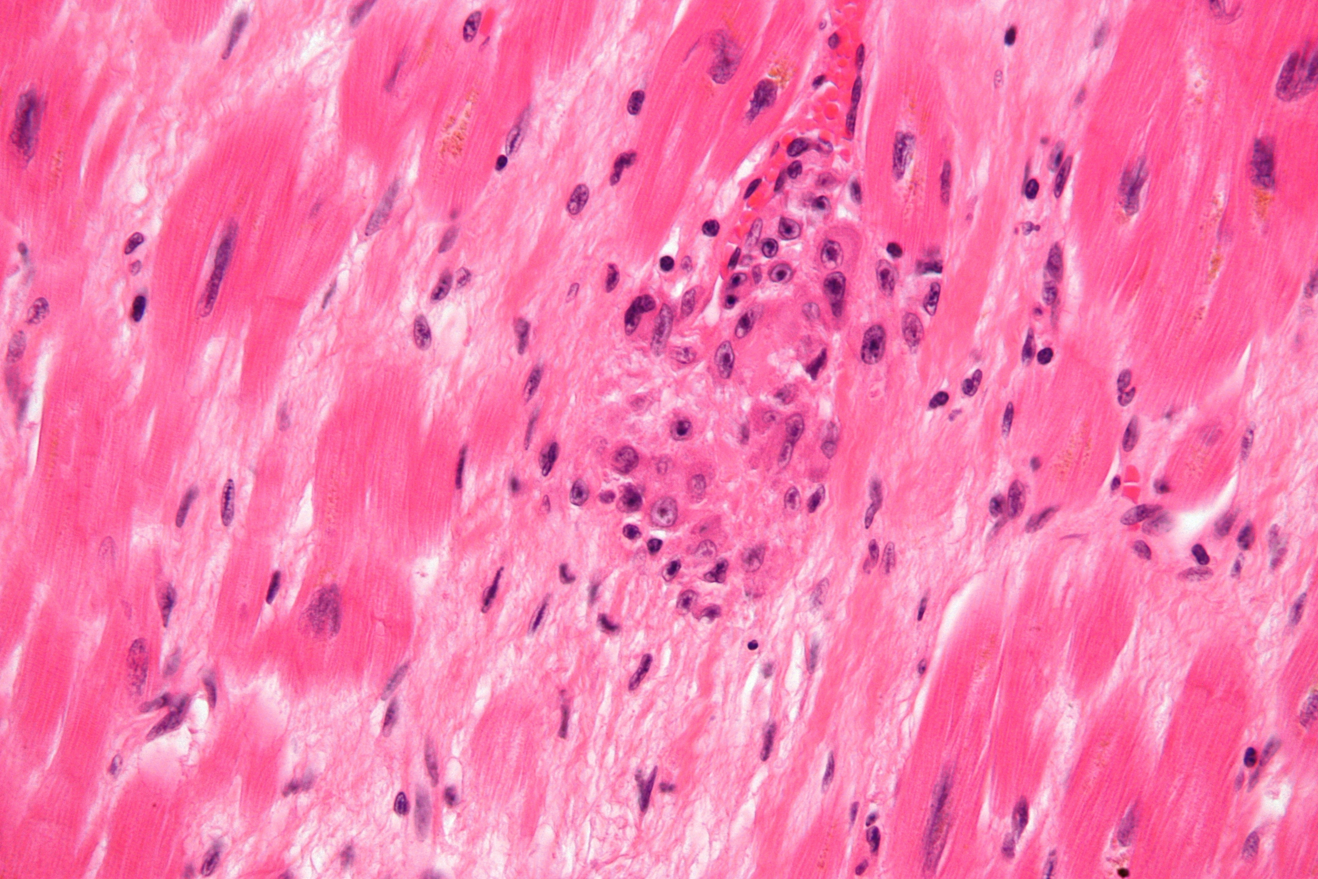 Very high magnification micrograph of rheumatic heart disease. H&E stain. It is due to Streptococcus pyogenes. Microscopic findings include Anitschkow cells (also known as caterpillar cells), and Aschoff bodies. Anitschkow cells are thought to be cardiac histocytes and Aschoff bodies are thought to be granulomas.[1] Related images Low mag. Intermed. mag. High mag. Very high mag. High mag. Very high mag. High mag. Very high mag. Very high mag. References ↑ (Jul 1988). "Aschoff bodies of rheumatic carditis are granulomatous lesions of histiocytic origin.". Mod Pathol 1 (4): 256-61.